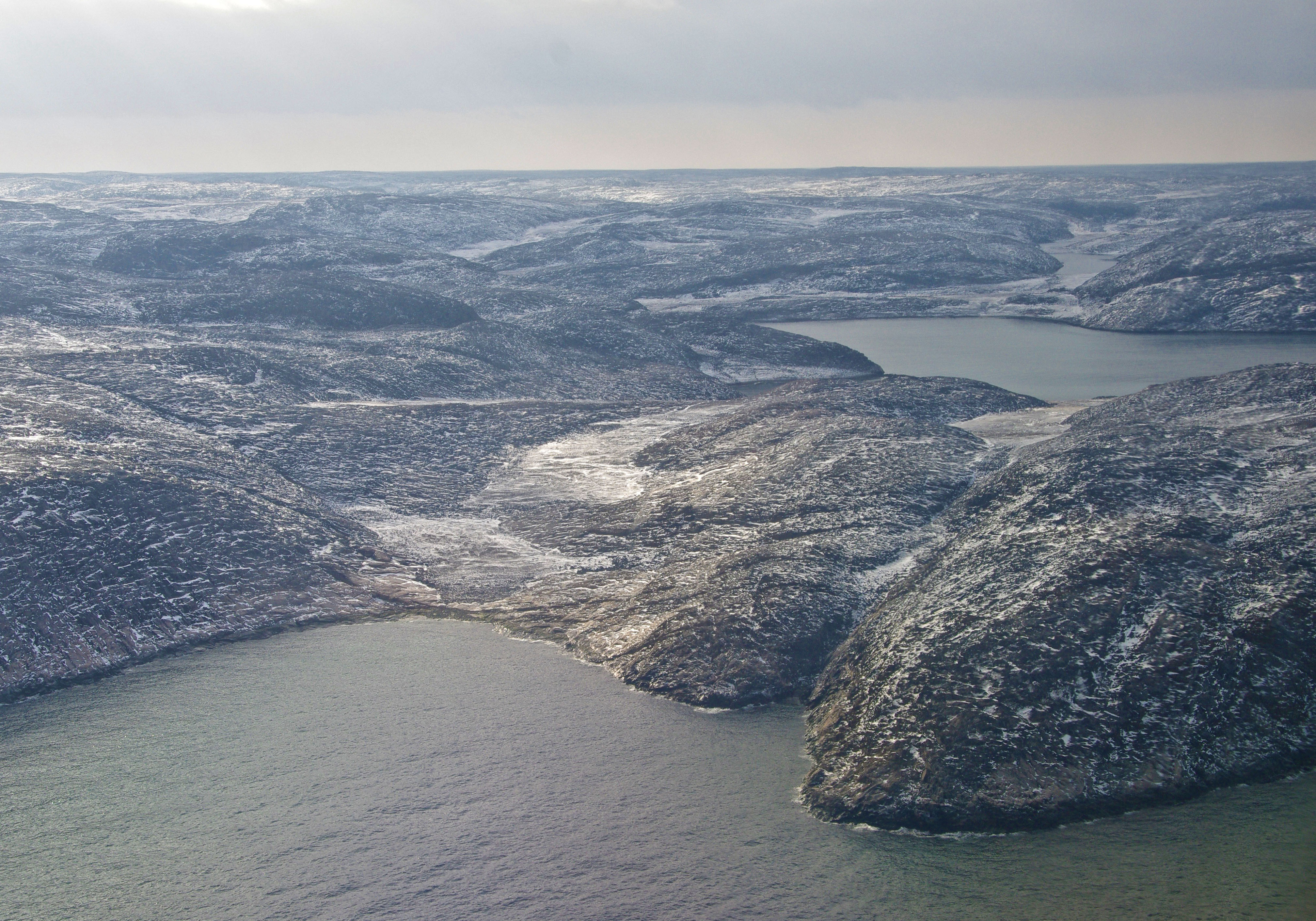 Aerial view of Nunavik tundra